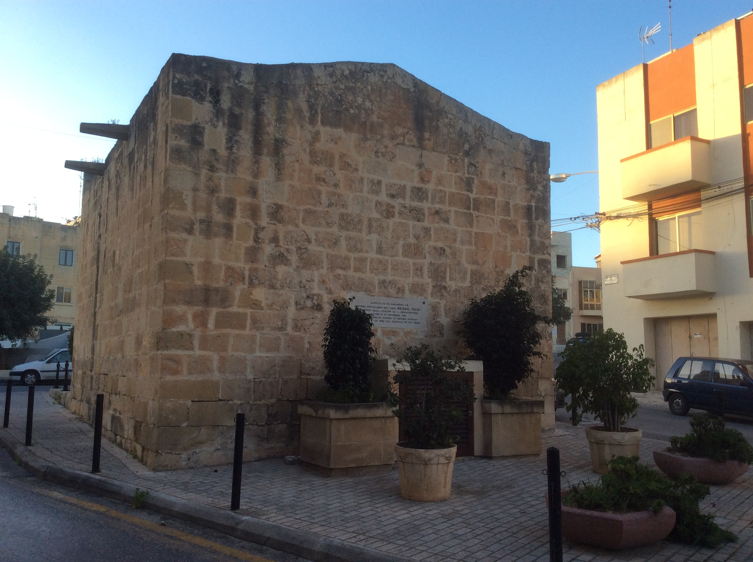 Santa Margerita Chapel